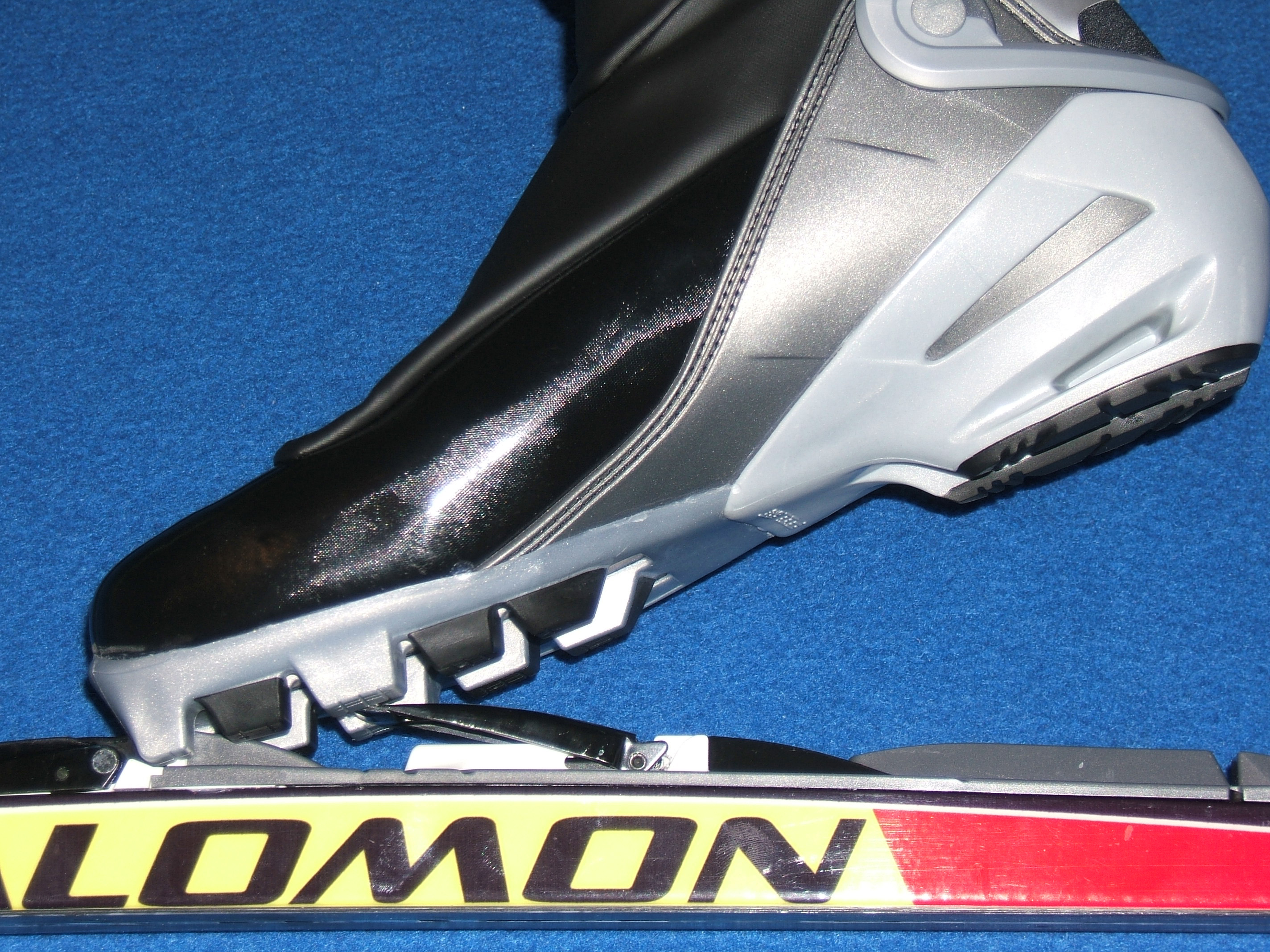 Shoe and binding for Skating in cross country skiing.